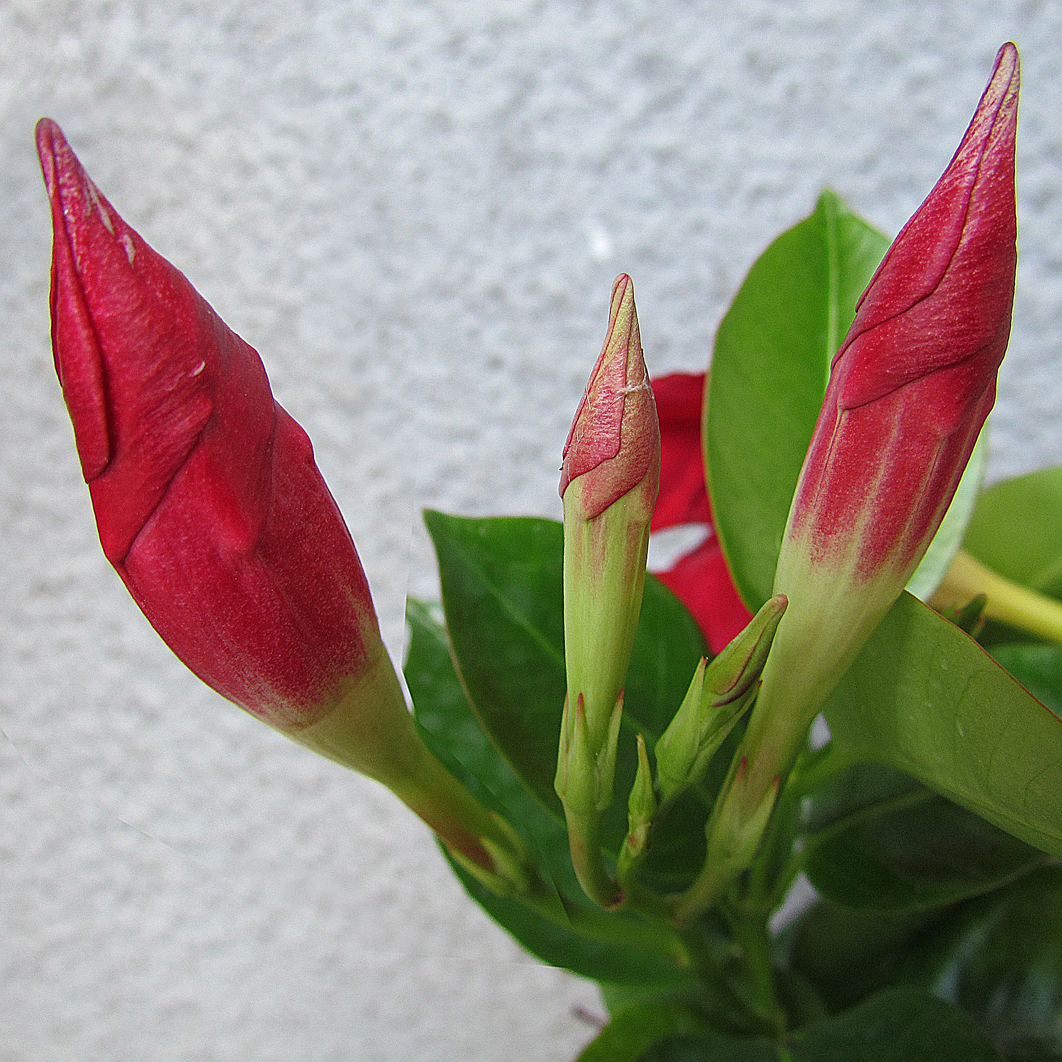 Mandevilla sanderi bud